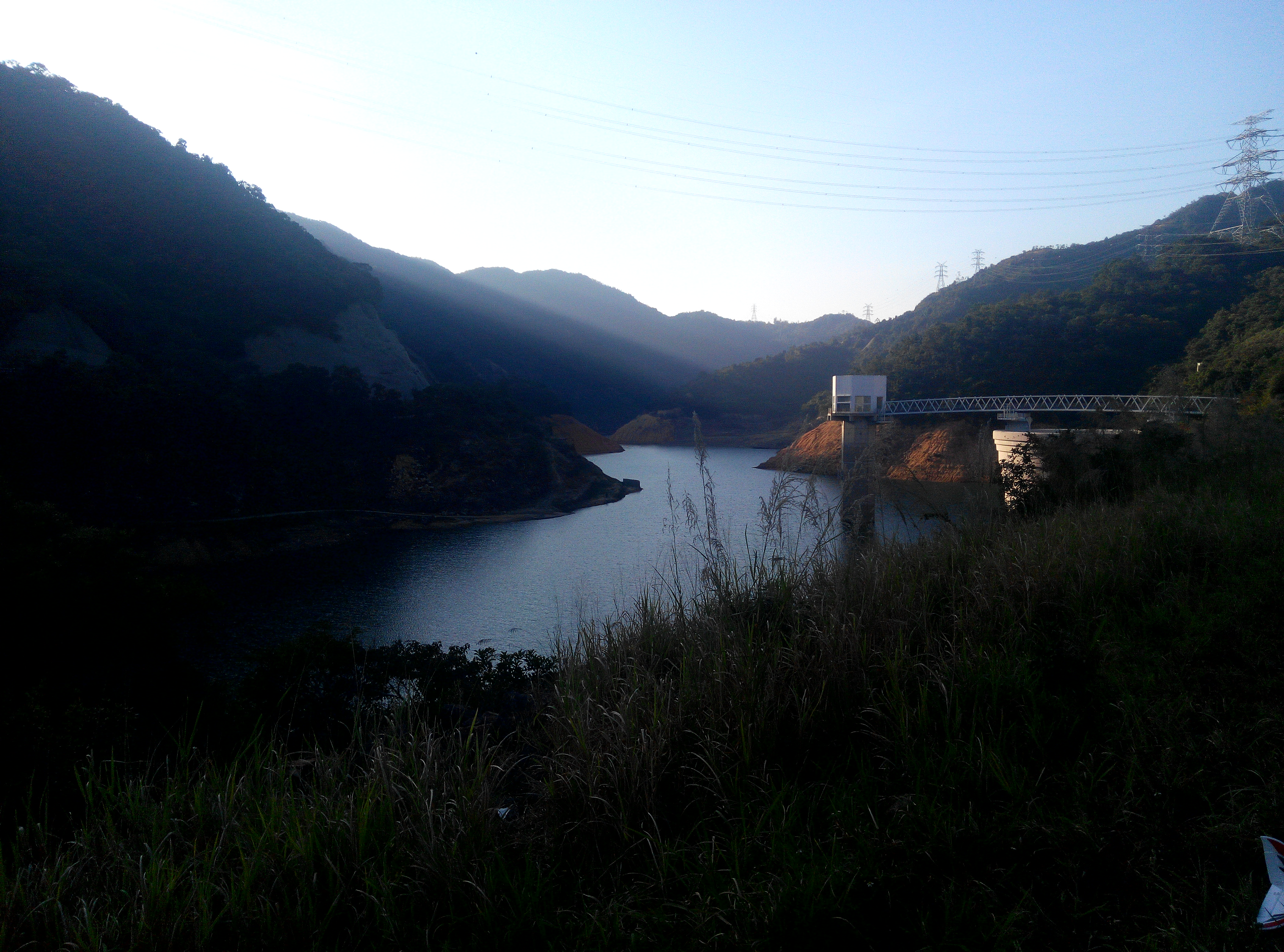 Lower Shing Mun Resrvoir